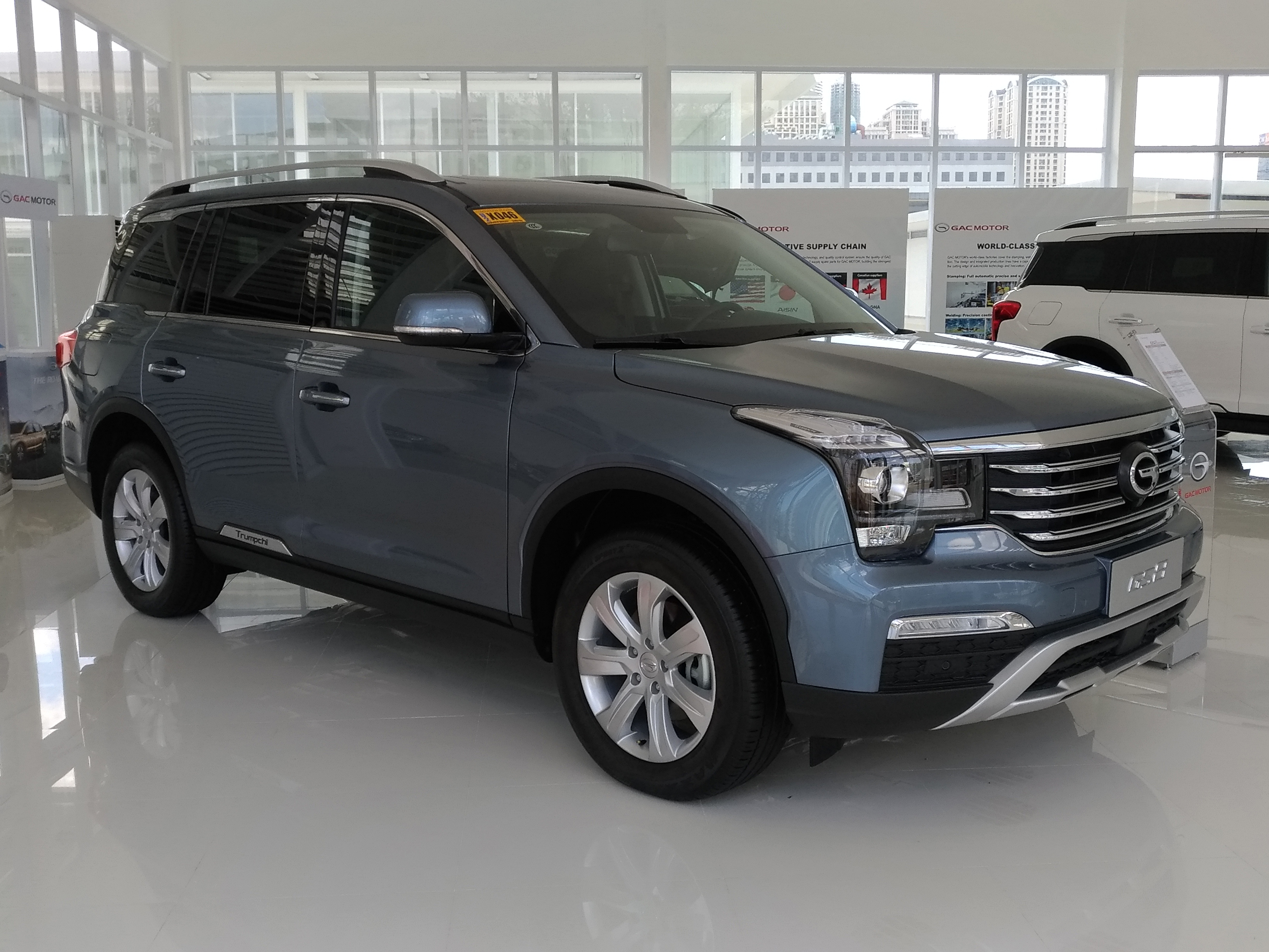 2019 GAC GS8 GE. Photographed at GAC Motor Metrowalk Pasig, Philippines.